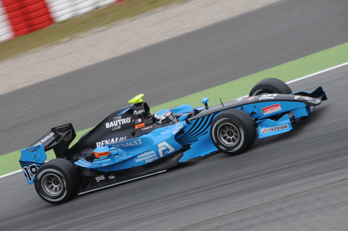 Fabio Leimer on his way to victory in the GP2 Race in Spain 2010.